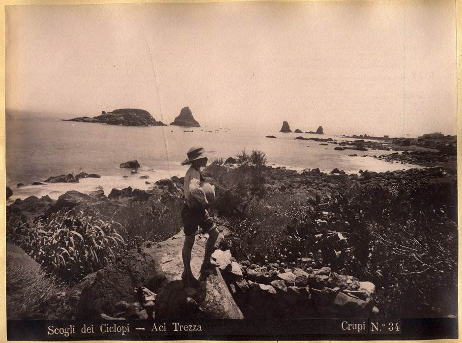 Giovanni Crupi (1849-1925), "Islands of the Cyclops - Aci Trezza". Catalogue # 34.